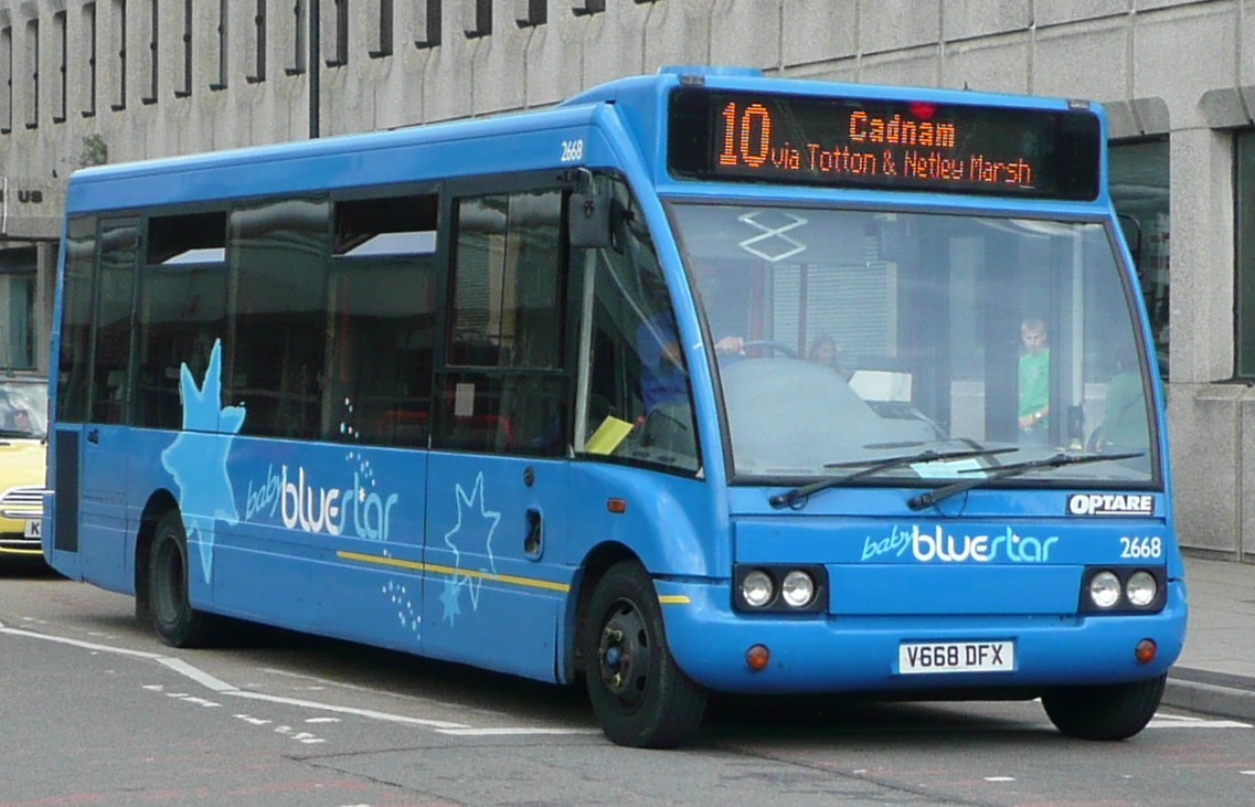 Bluestar 2668 (V668 DFX), an Optare Solo, in Portland Terrace, Southampton, Hampshire, passing WestQuay shopping centre on route 10.